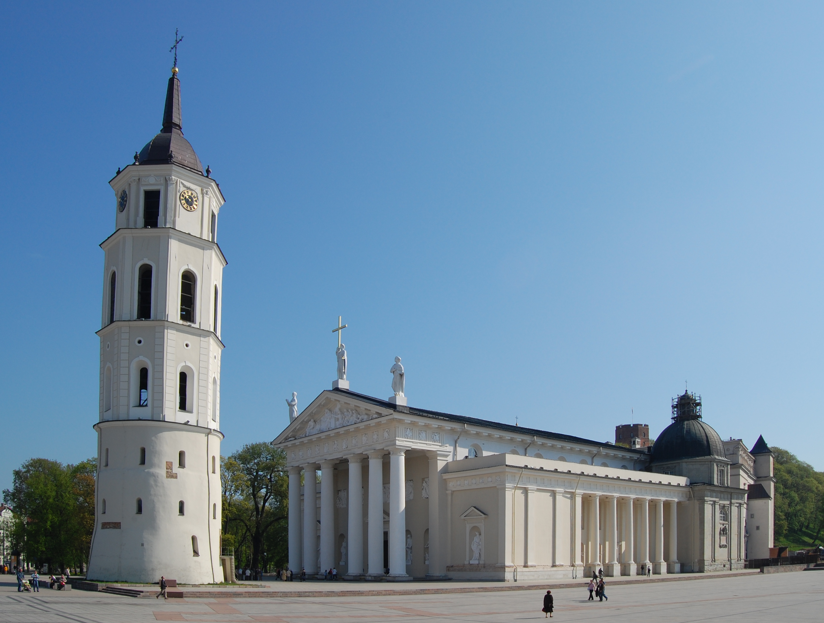 Vilnius Cathedral, Lithuania This is a retouched picture, which means that it has been digitally altered from its original version. Modifications: perspective corrected with hugin;notice that tower is not straight in fact.